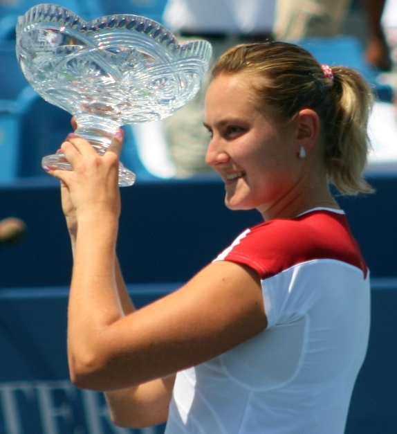 Nadia Petrova wins the 2008 WTA Cincinnati Open